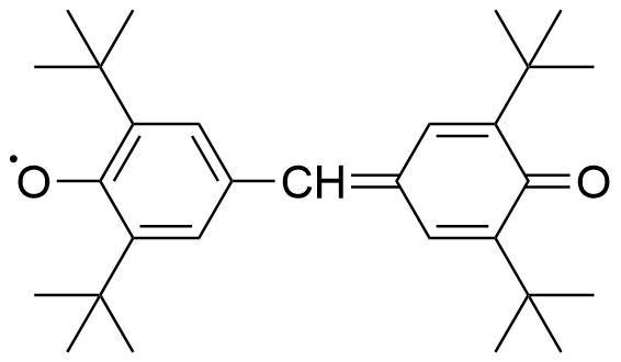 Galvinoxyl radical